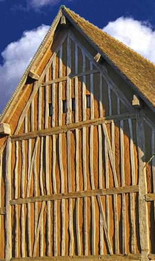 Torchis